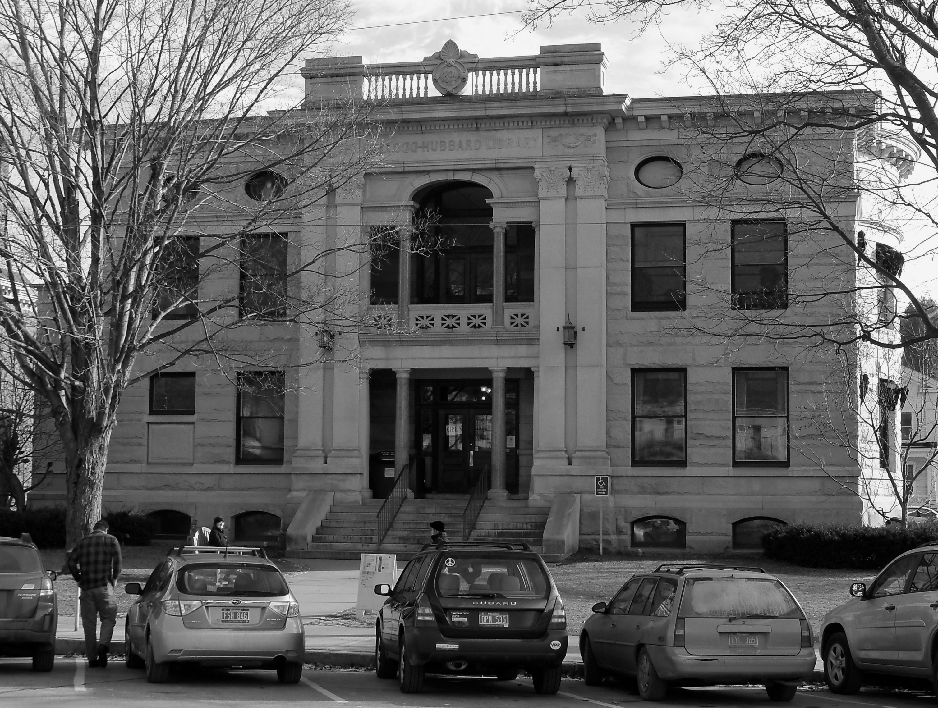 Kellogg-Hubbard Library in Montpelier, Vermont, USA.